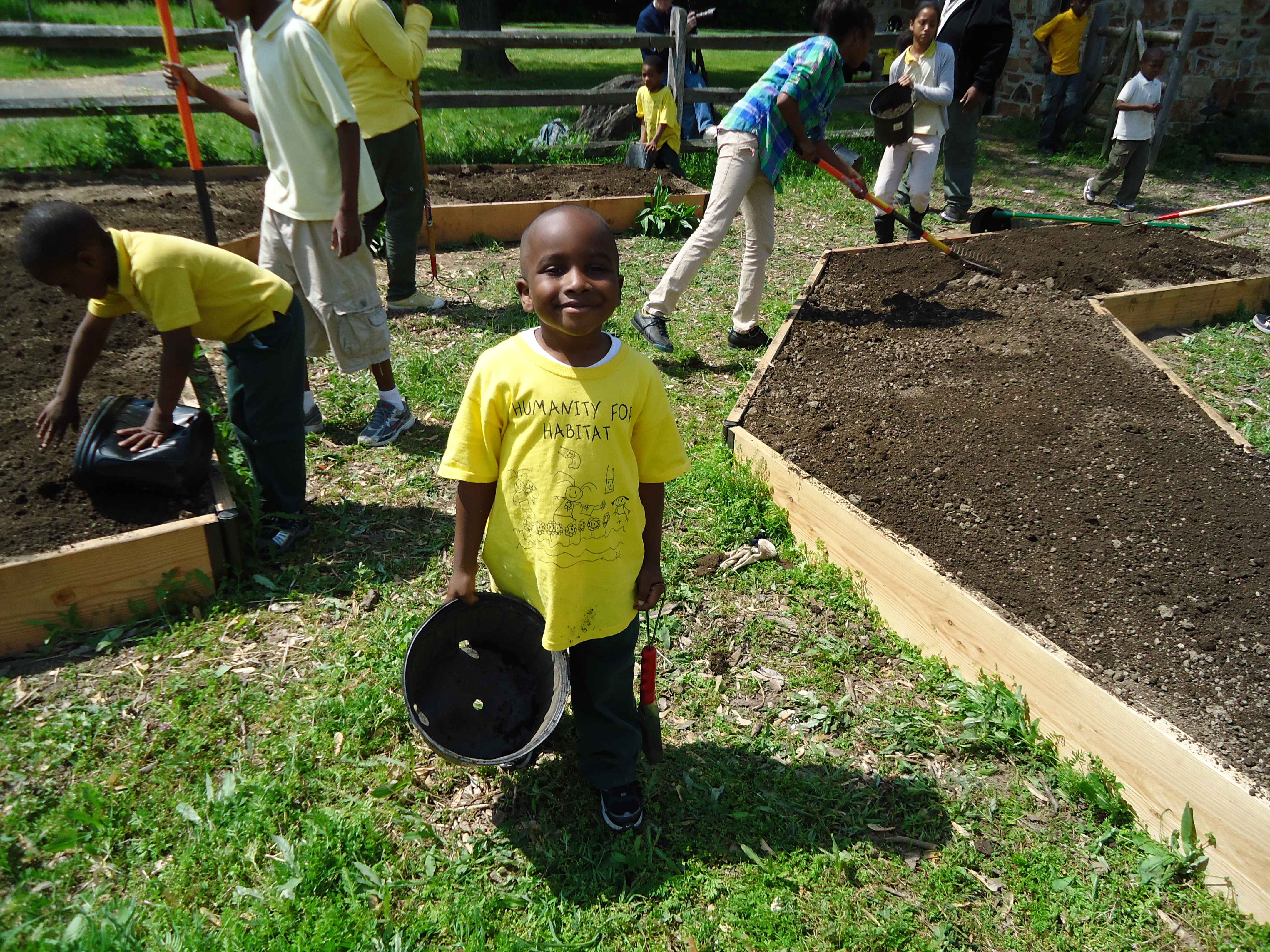 Image title: Children volunteers helping plant a pollinator garden Image from Public domain images website